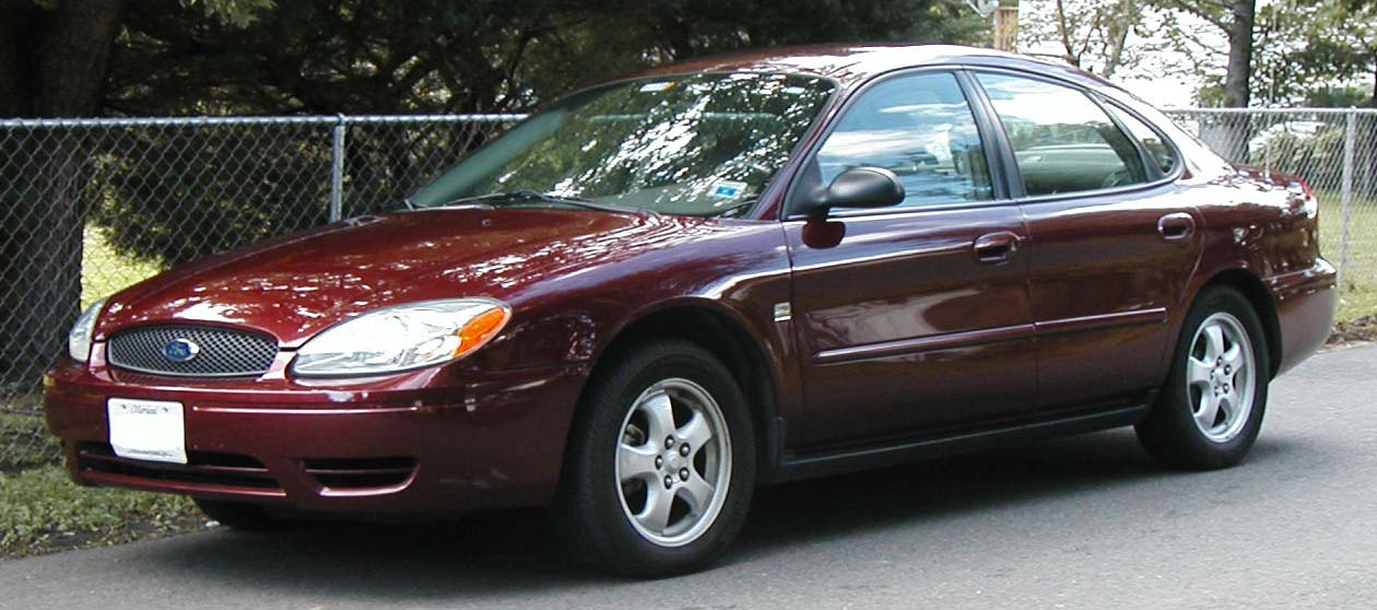 2004-2006 Ford Taurus photographed in USA.